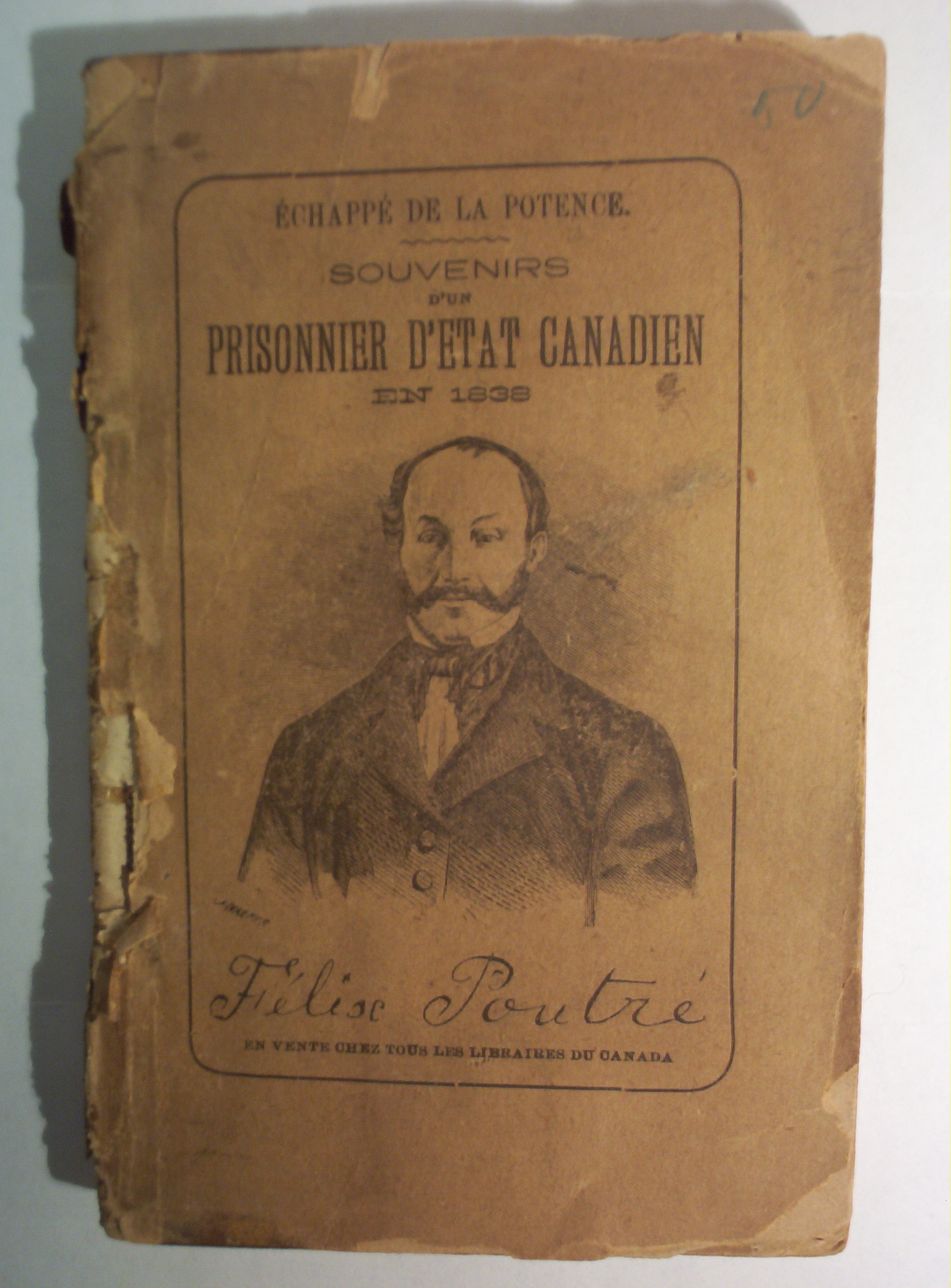 The cover of Félix Poutré's book (1884 edition), Échappé de la potence - Souvenirs d'un prisonnier d'État canadien en 1838.